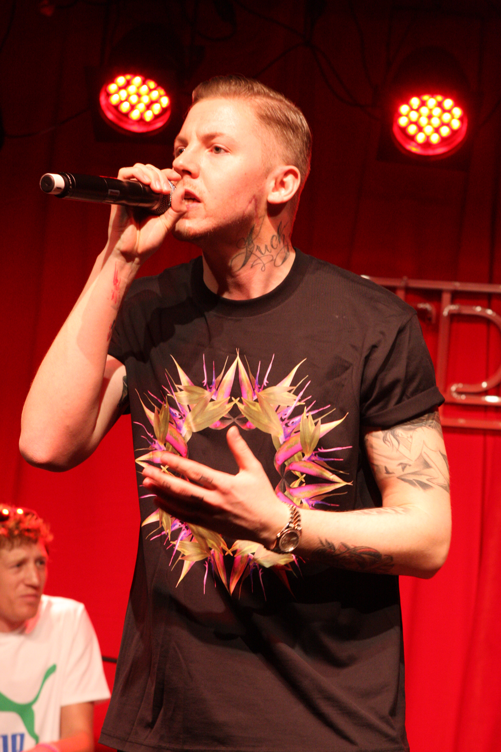 Professor Green on 9 March 2012, Nova's Red Room at The Star, Sydney